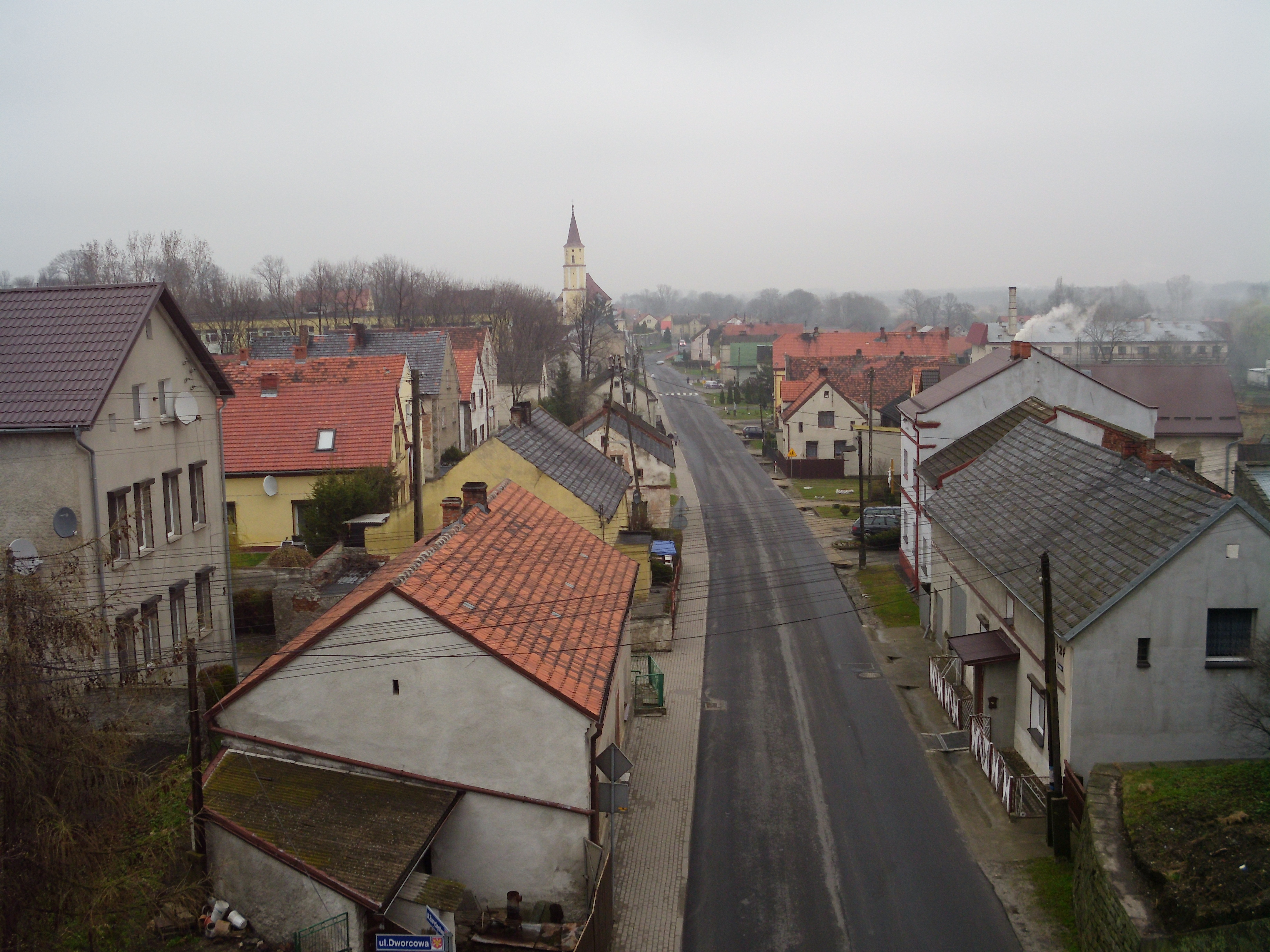 View of Racławice Śląskie from a disused railroad bridge (route 294) over Zwycięstwa street.